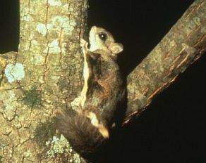 Dean Winchester (Glaucomys sabrinus)